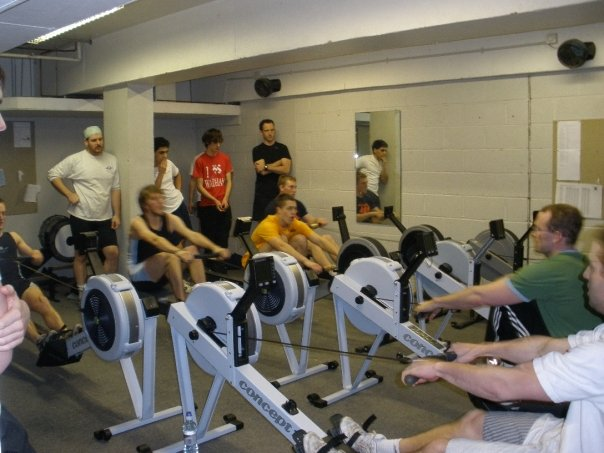 Team Ergs in the erg room